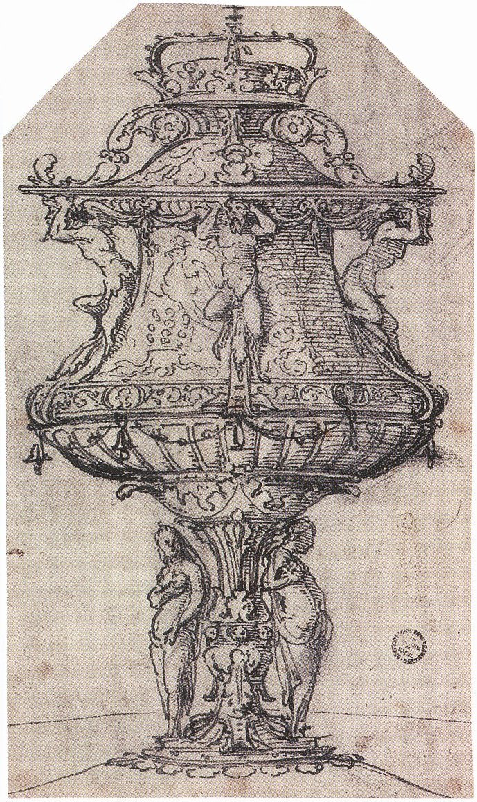 Design for a Table Fountain with the Badge of Anne Boleyn. Pen and black ink over chalk on paper, 25.1 × 16.4 cm, Kunstmuseum Basel, Kupferstichkabinett.